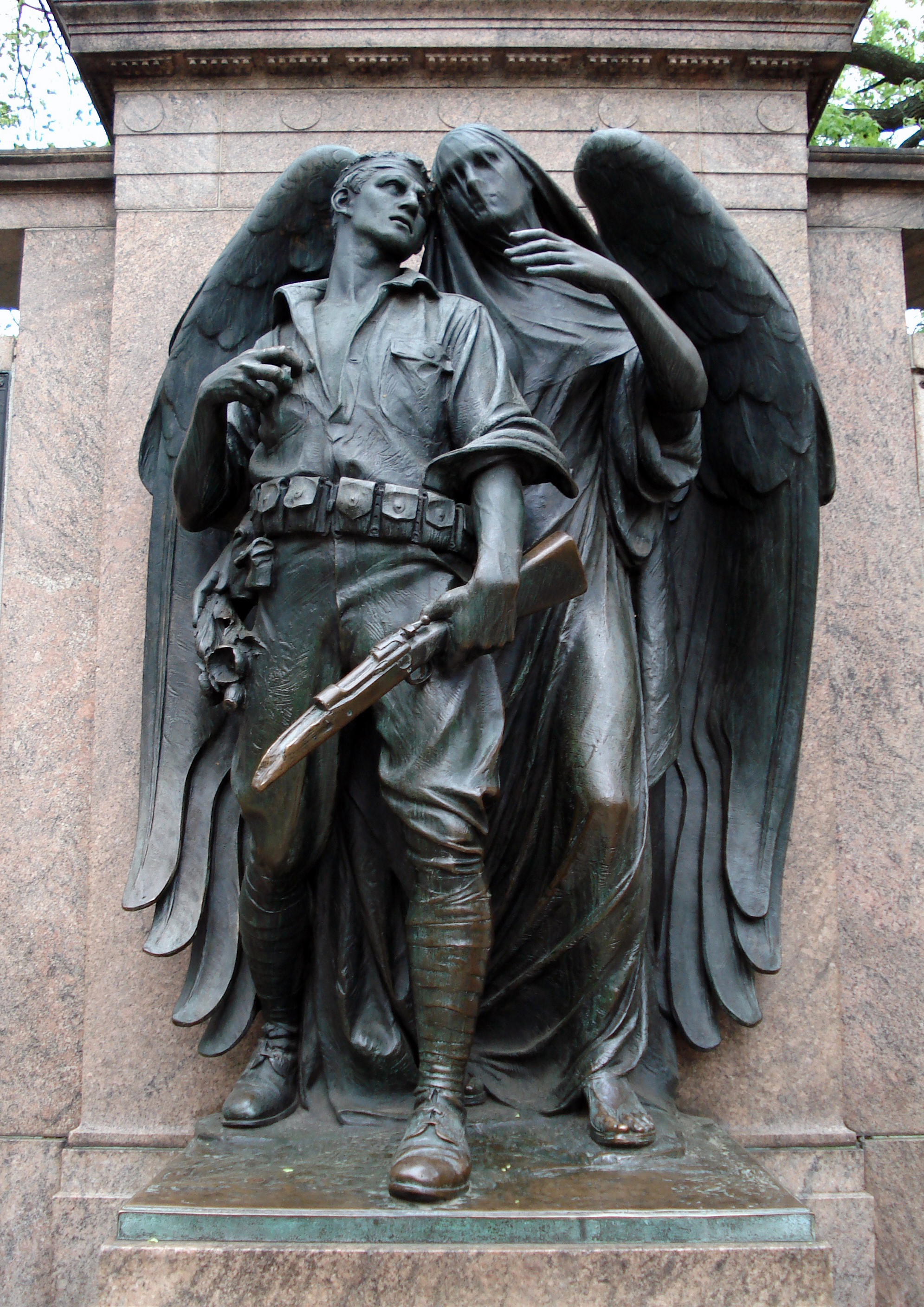 Detail of the statue Image of the statue at the "Prospect Park Memorial", the World War I monument, sculpted by Augustus Lukeman and dedicated in 1921, in Prospect Park, Brooklyn, New York City - bronze on granite. Copyright 2007 Jeffrey O. Gustafson, released to Wikimedia Commons under the GFDL and CC-BY-SA-2.0.